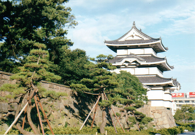 Tsukimi-yagura of Takamatsu Castle (Japan's national important cultural property). Takamatsu City, Kagawa, Japan